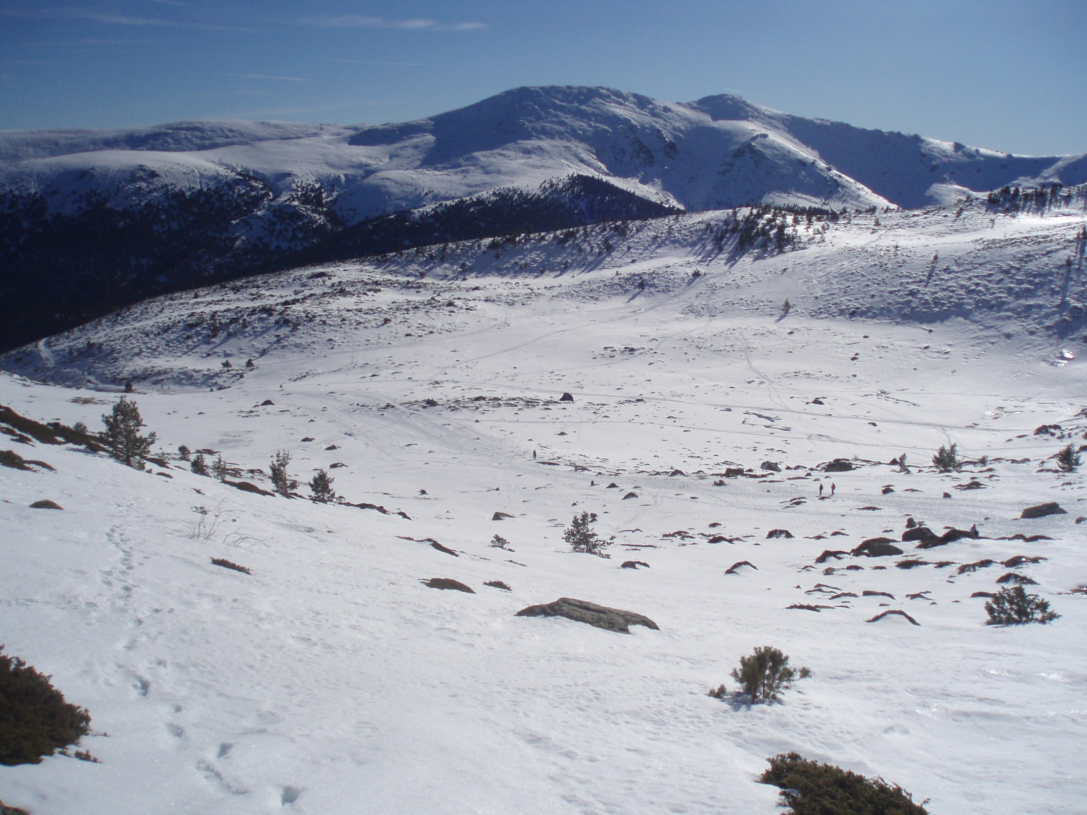 Glaciar circus of Peñalara (Guadarrama mountain range, Central Spain).